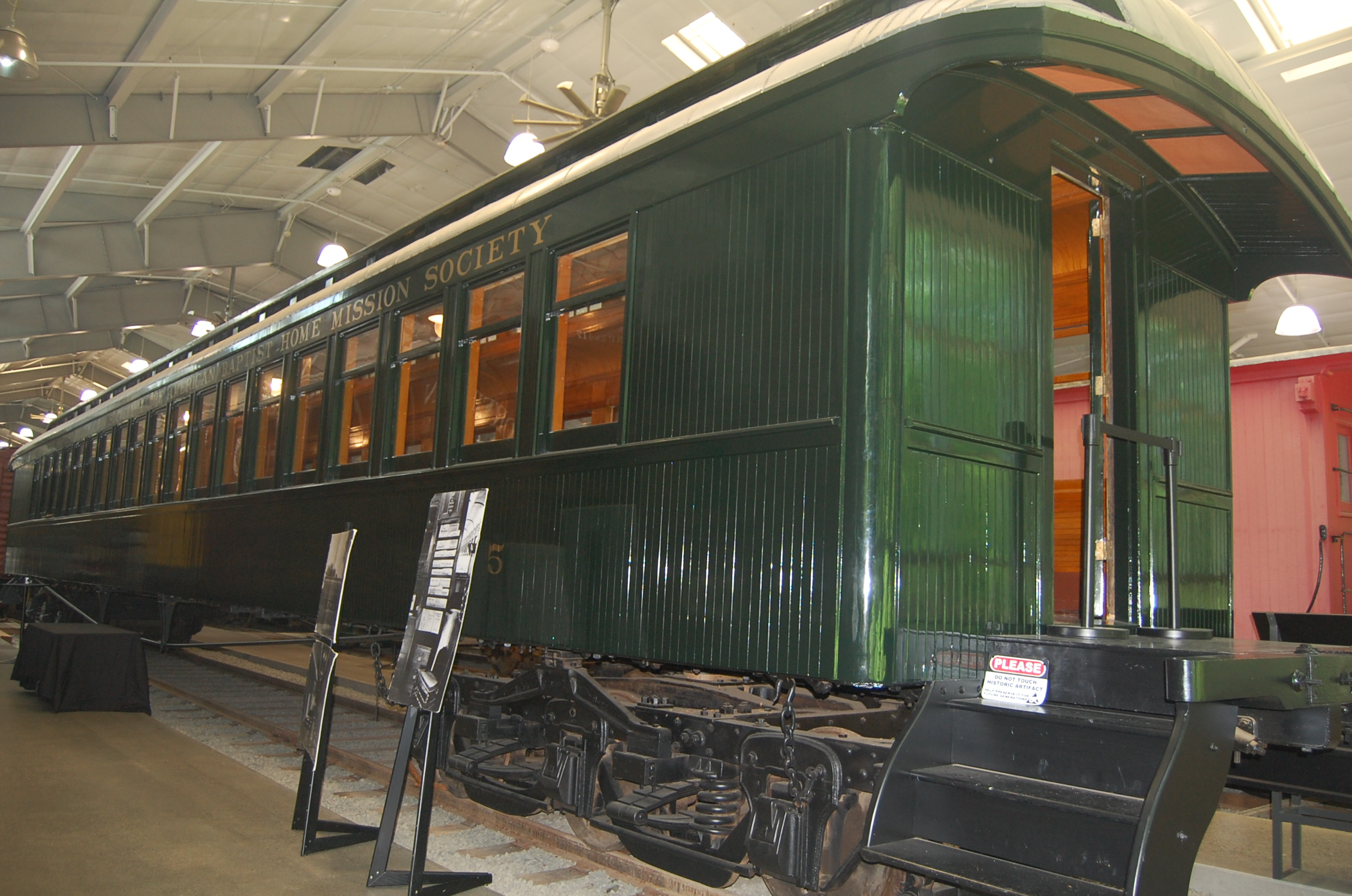 Messenger of Peace Chapel Car is on the National Registry of Historic Places (NRHP #08000998)